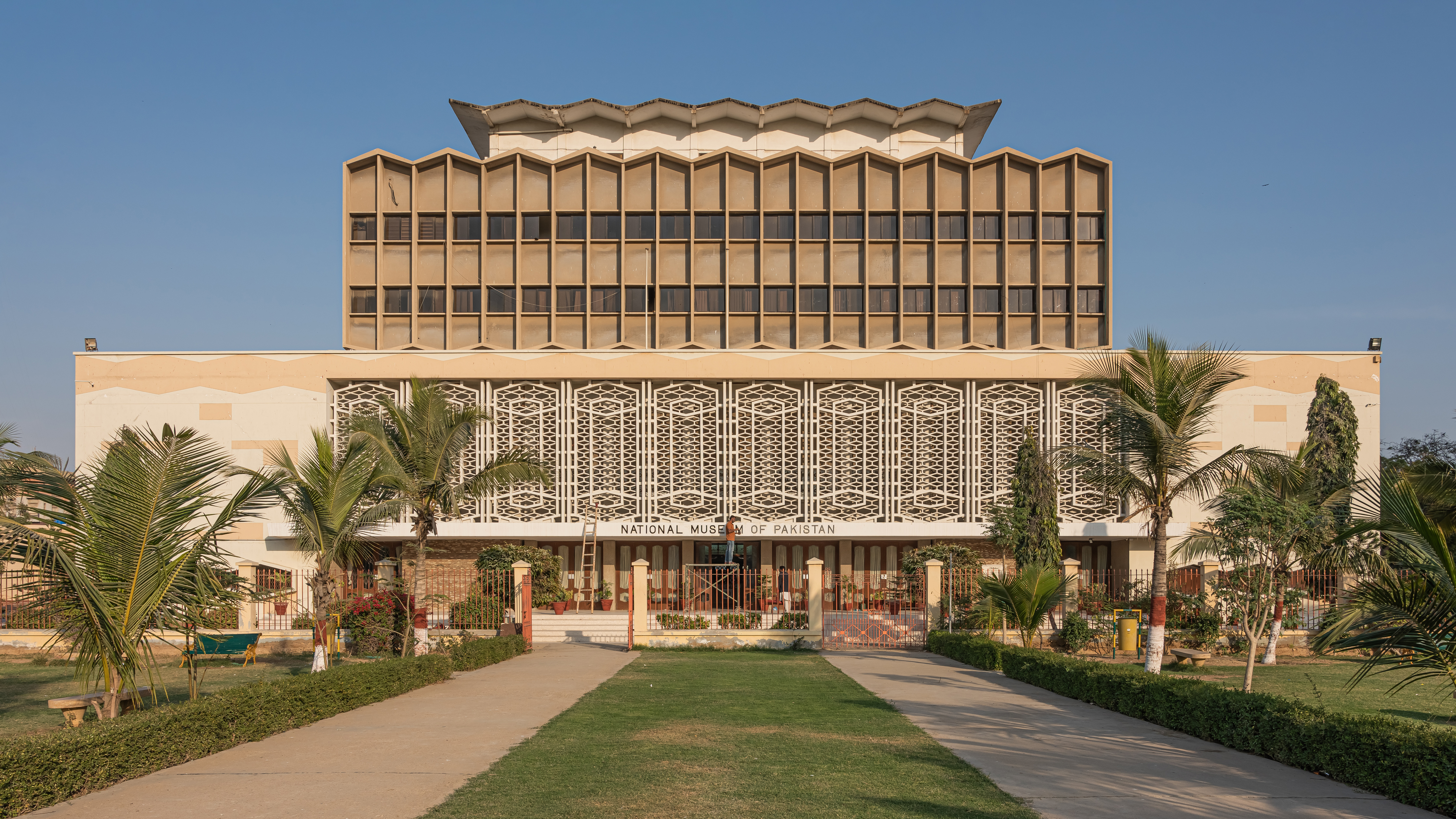 National Museum main building in Karachi, Pakistan